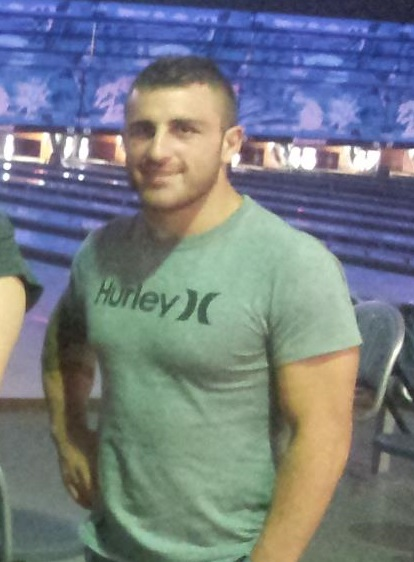 Alex Volkanovski